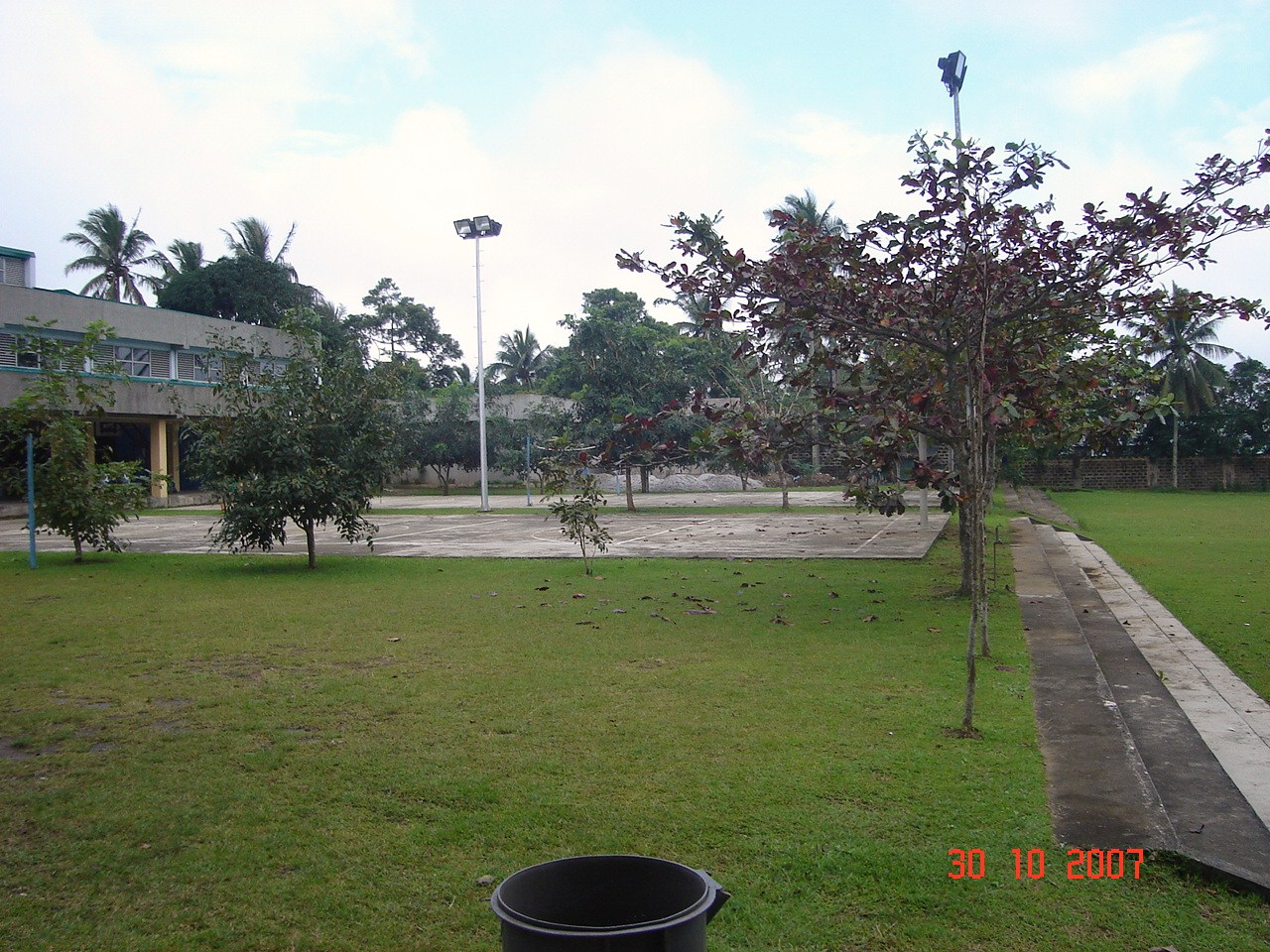 An open field with one basketball and volleyball court behind the trees in the Rogationist College of Silang, Cavite, Philippines